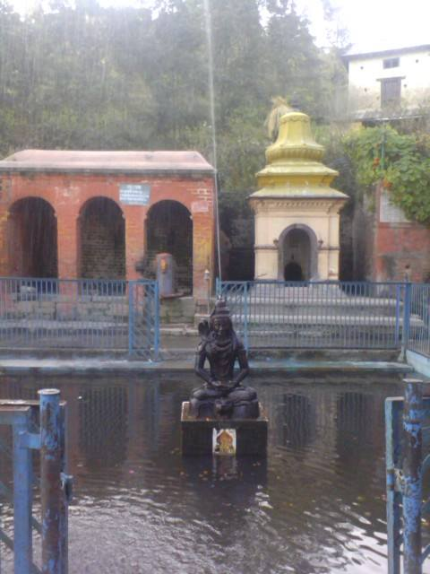 Pond of Dhaneshwor Temple